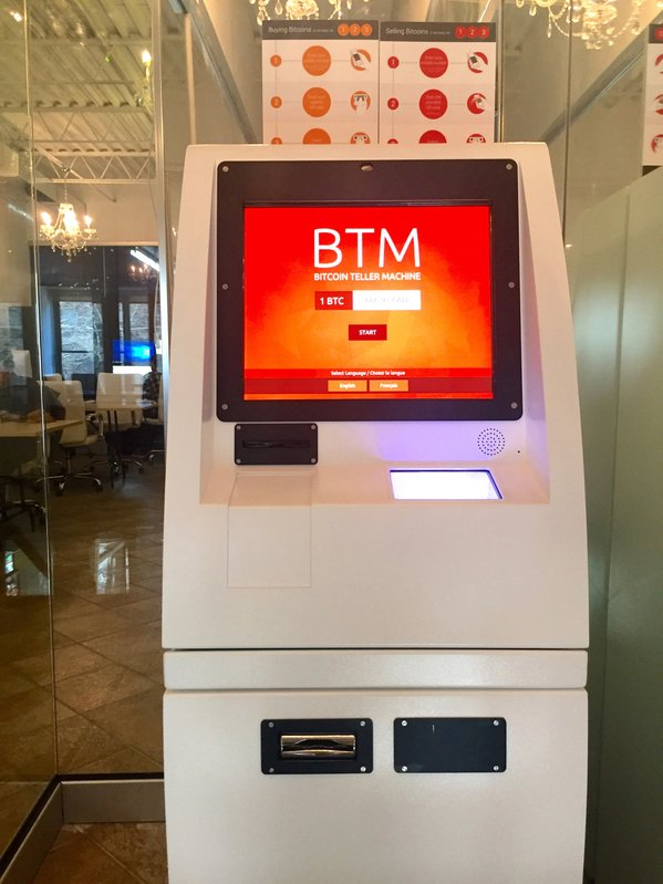 A two-way Bitcoin ATM at Decentral in Toronto that allows users to buy or sell bitcoins with cash.